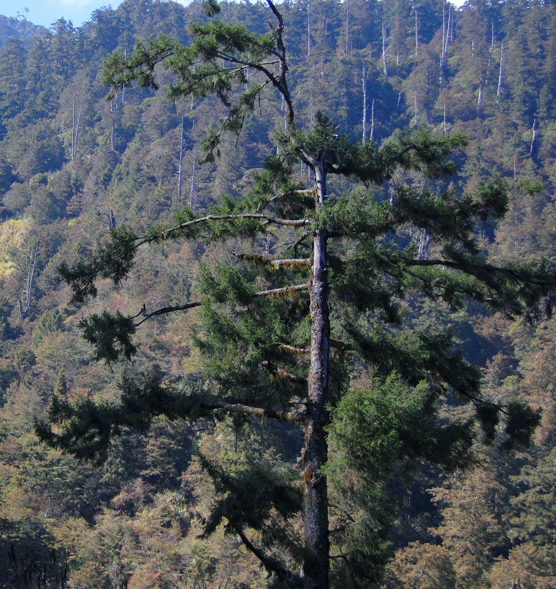 Picea morrisonicola, Taiwan South Cross-Island Highway (No. 20)